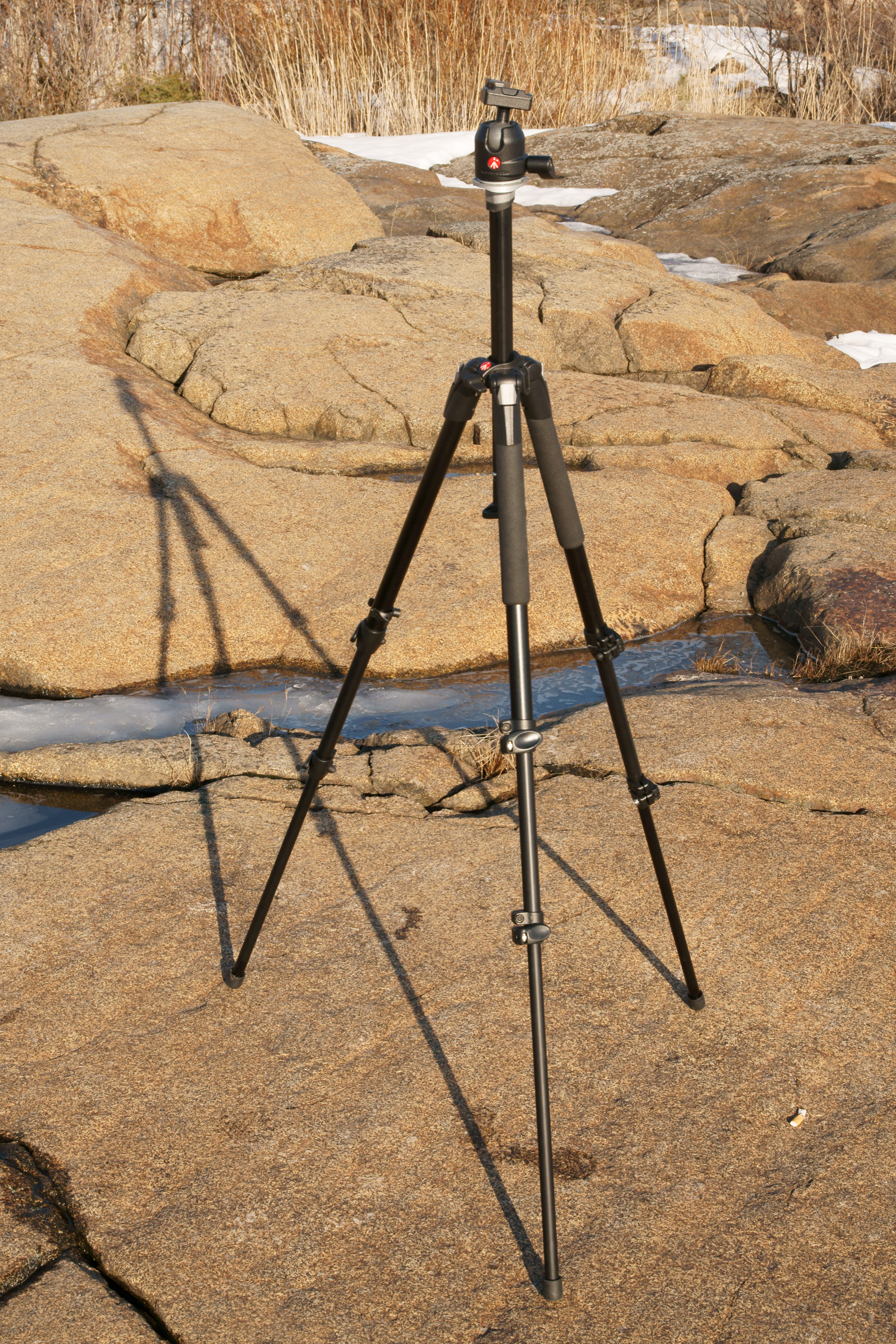 Manfrotto 190XB in Kallo.